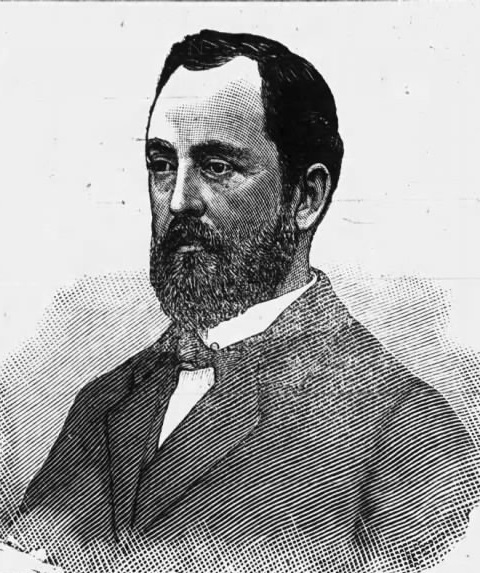 Daniel W. Connolly (Pennsylvania Congressman)